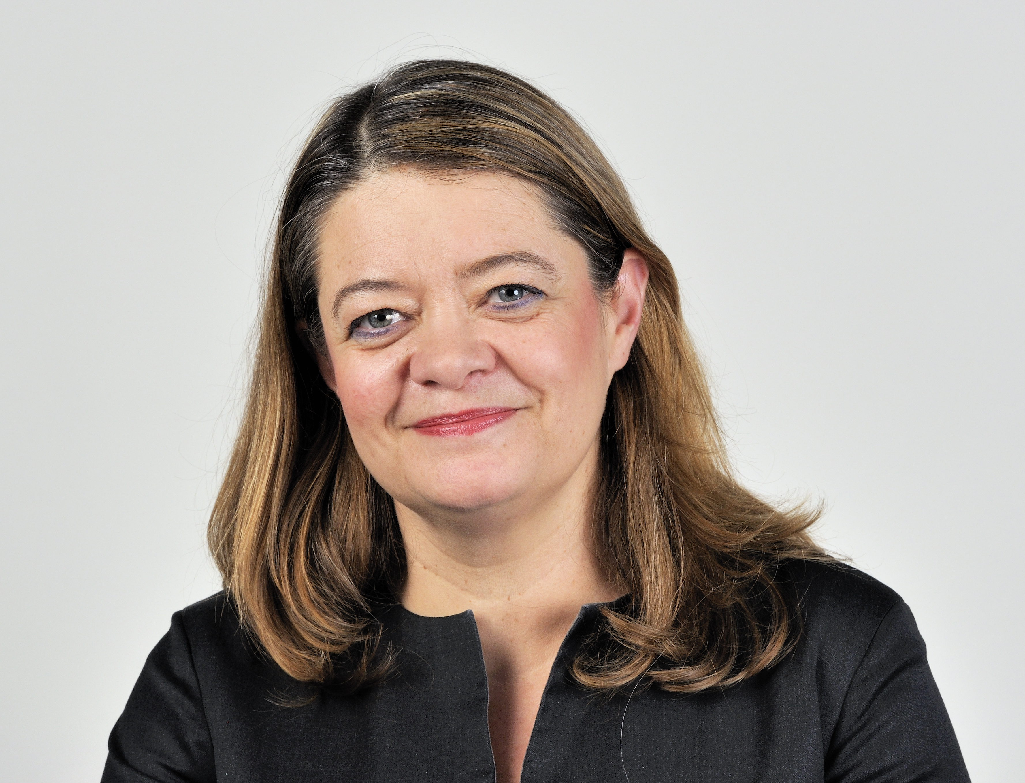 Isabelle Thomas, French politician and member of the European Parliament (as of 2014).